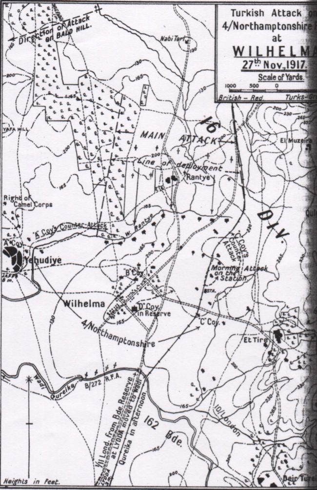 Battle for Jerusalem 1917. Map showing Turkish Attack on 4th Northamptonshire Regiment at Wilhelma 27 November 1917.